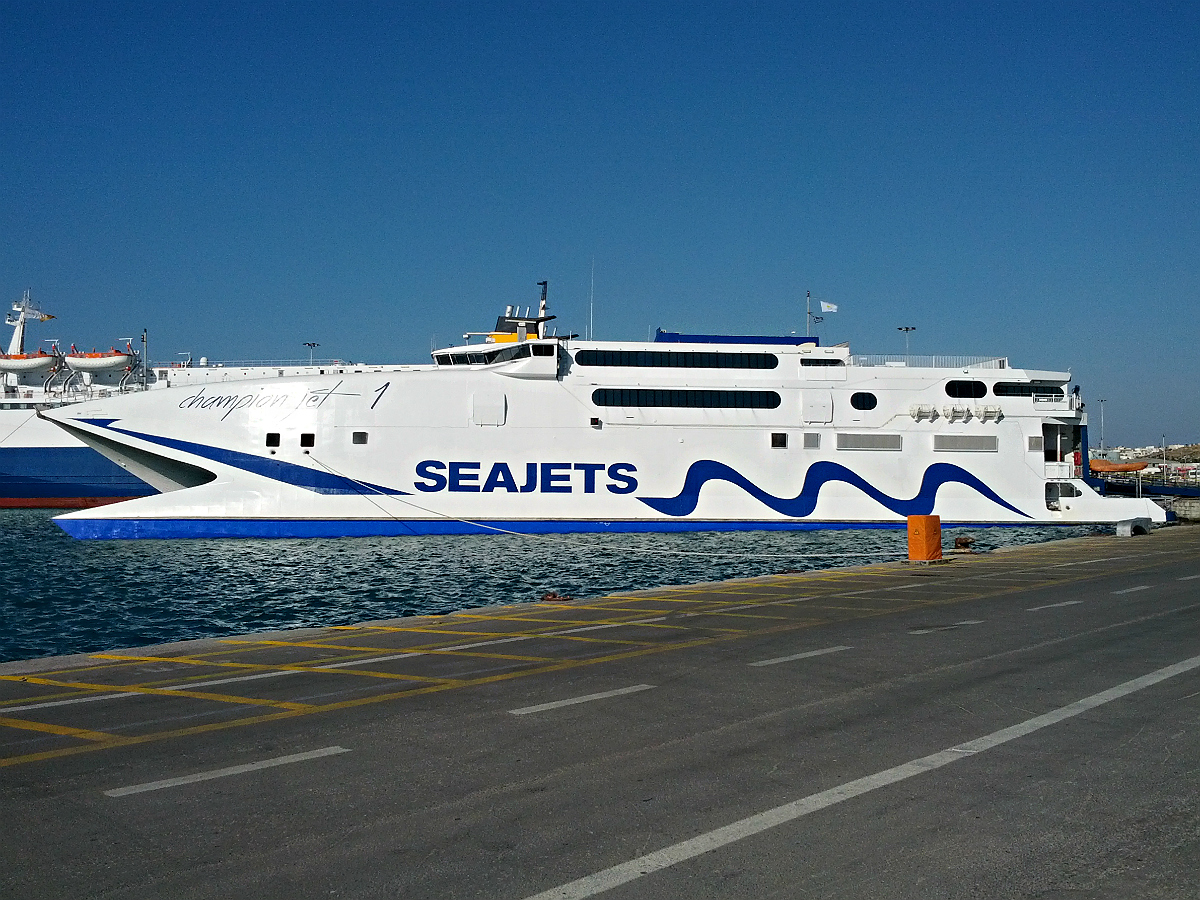 HSC Champion Jet 1 docked at the port of Heraklion, Crete.